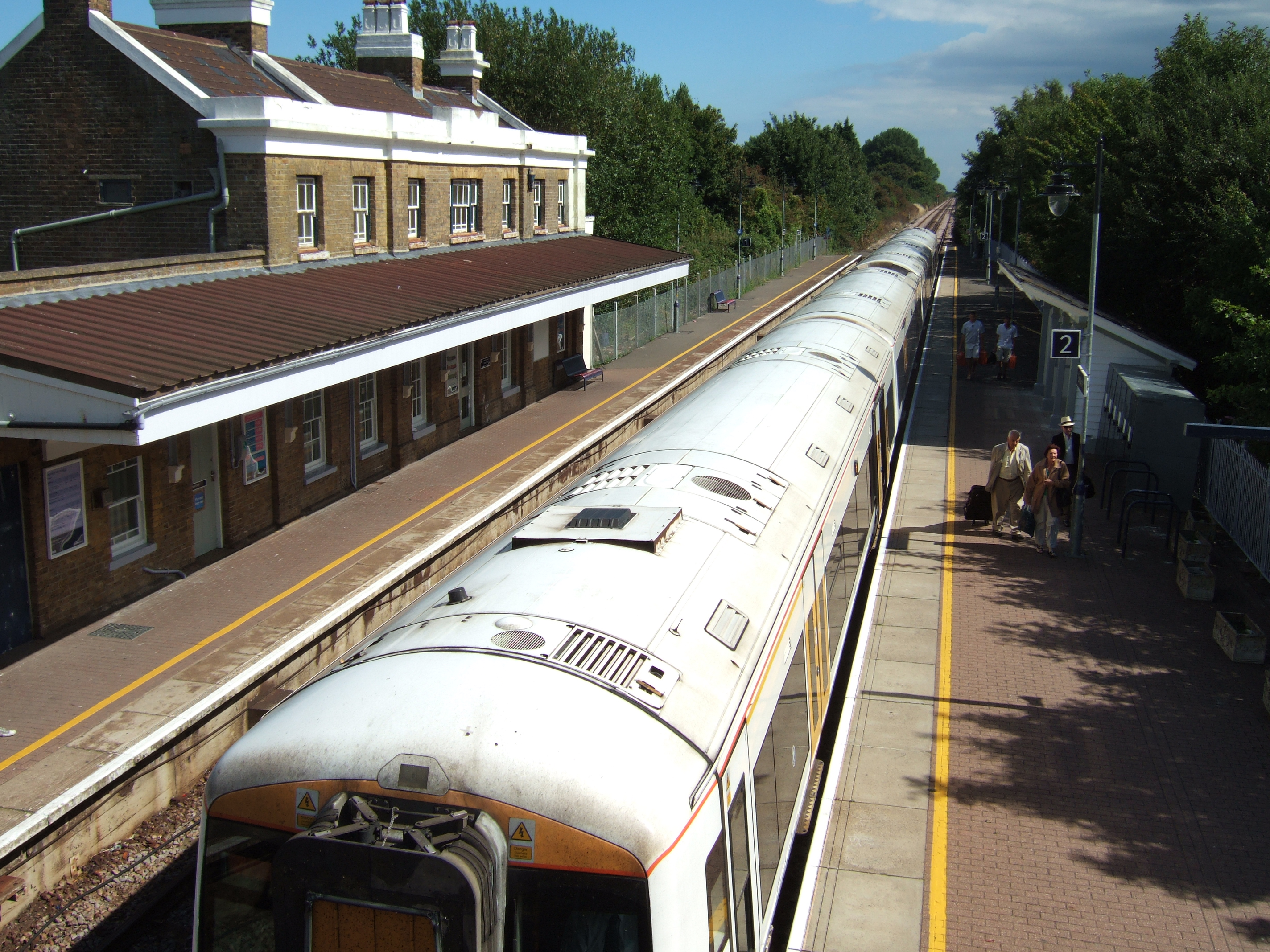 Class 375 unit 375710 at Sandwich railway station